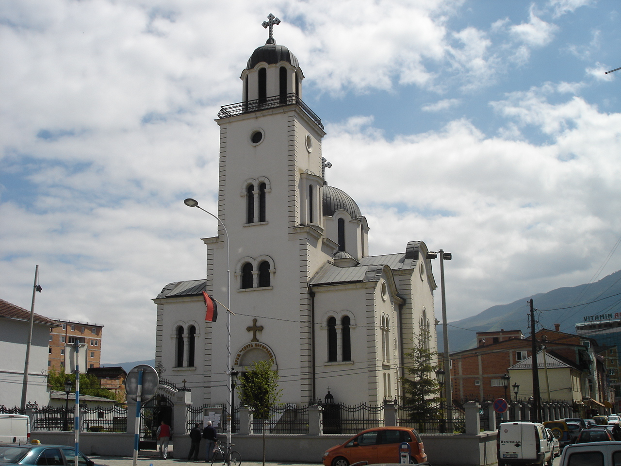 Church Holly Mother of God in Gostivar, Macedonia